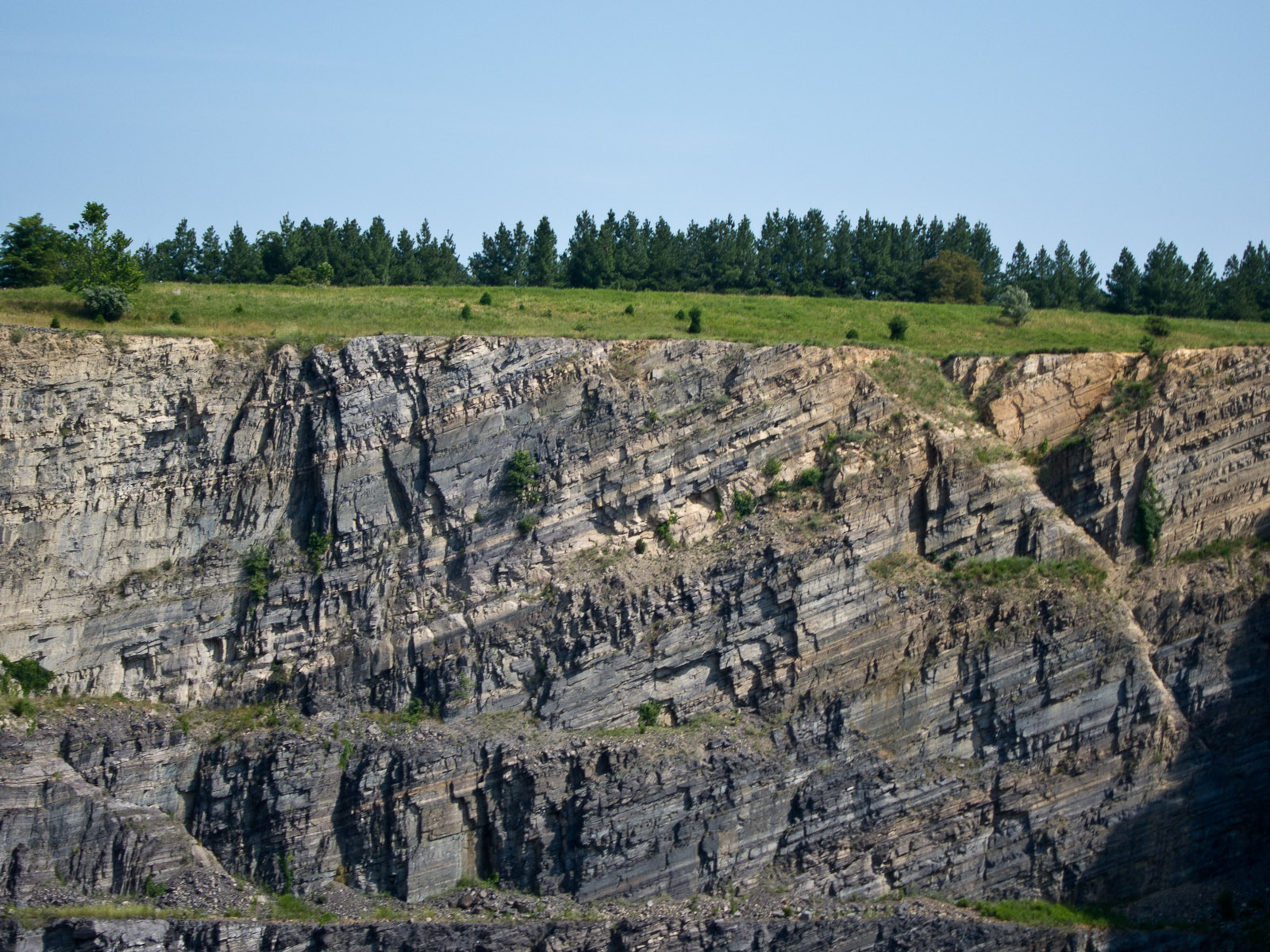 Showing the westward tilt of the formation - Luck Stone Quarry, Manassas VA